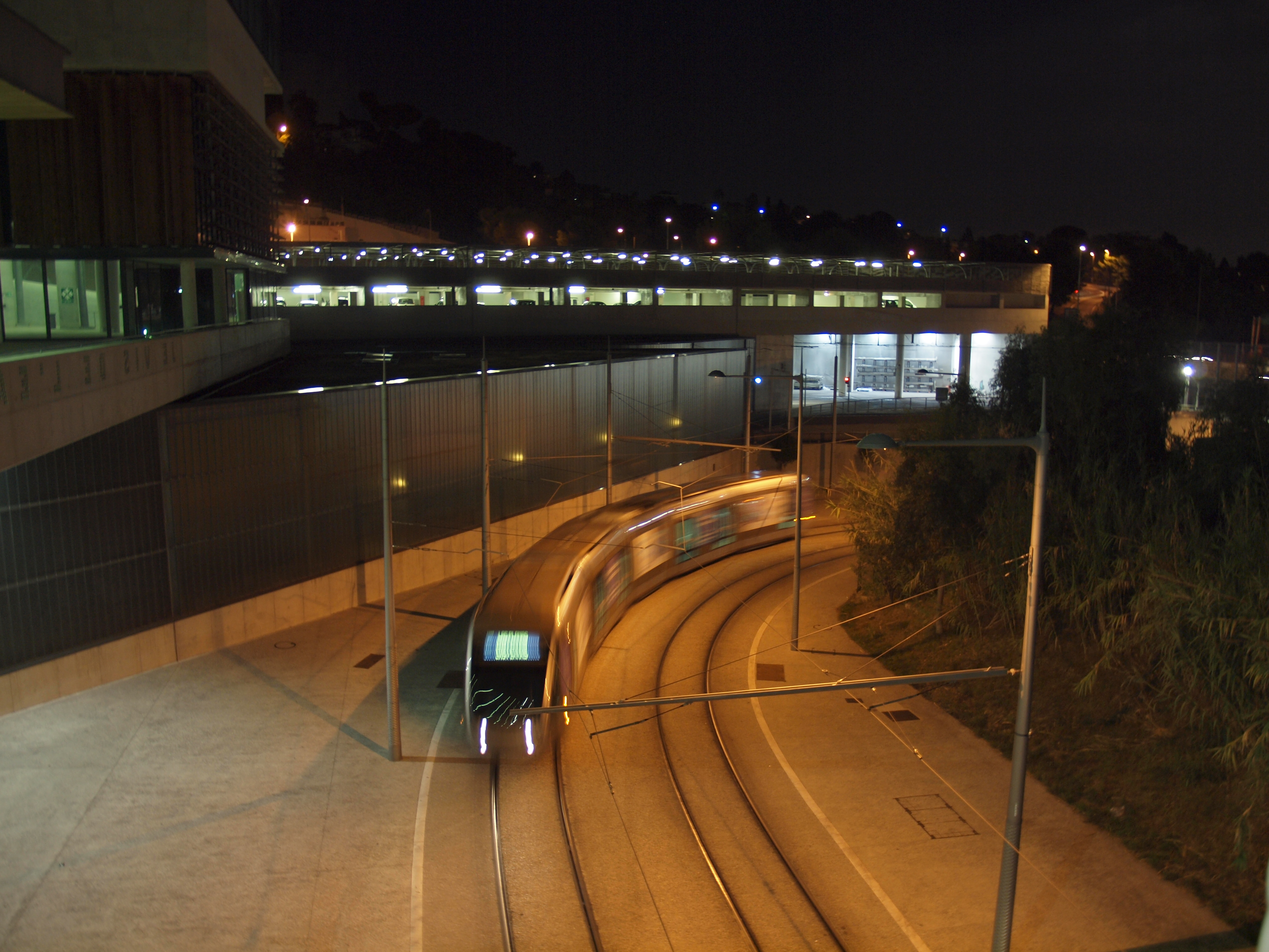 A Nice tramway car at Las Planas, the western end station of Nice's only tramway line, photographed late in the evening during the "L'Art dans le Ville" tour.